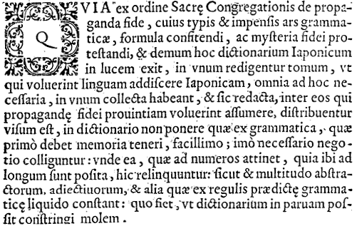 The first paragraph of Dictionarium sive thesauri linguae Japonicae compendium, written by Diego Collado (d. 1638) and published in Rome in 1632.